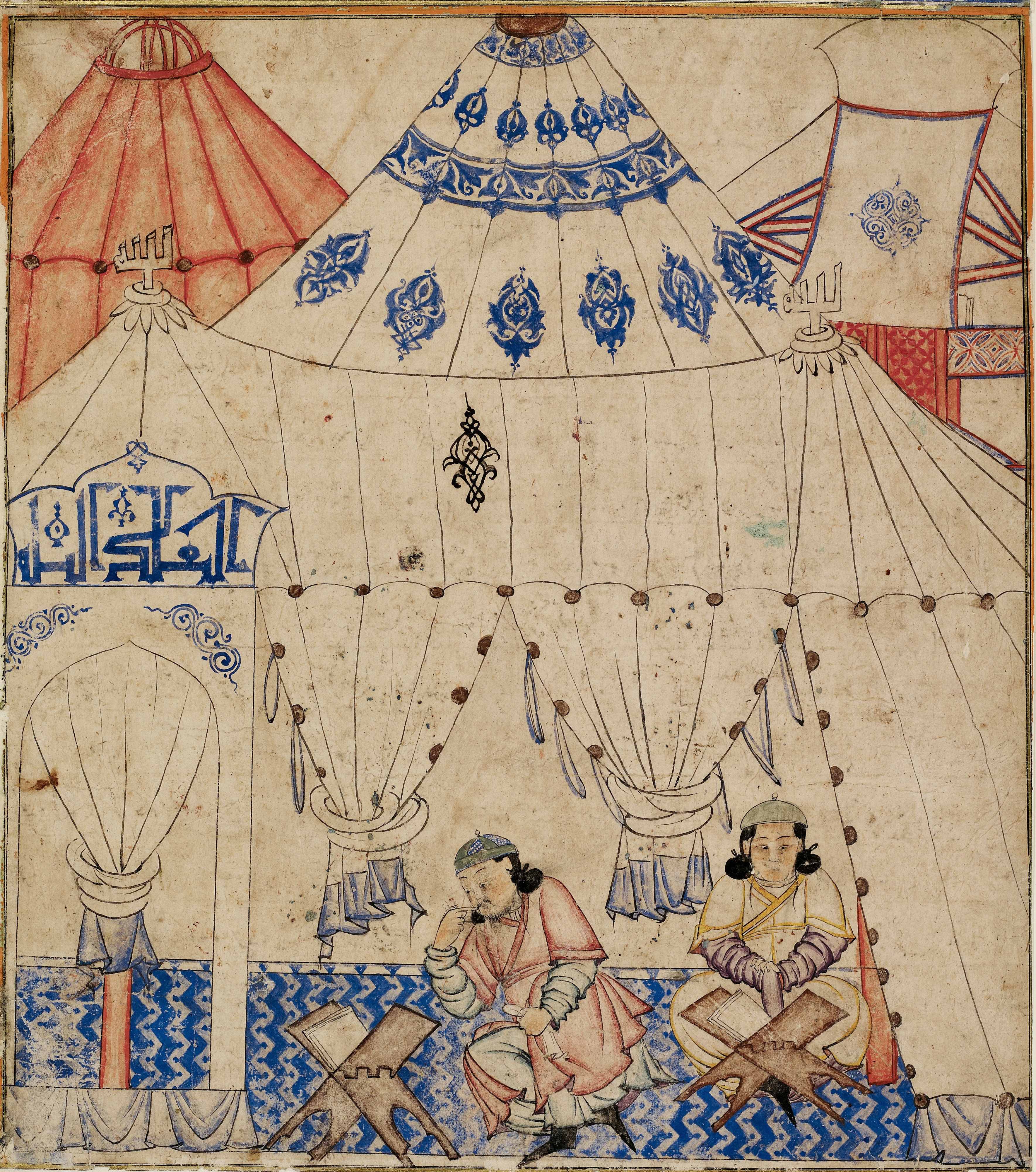 A Mongol prince studying the Koran. Illustration of Rashid-ad-Din's Gami' at-tawarih. Tabriz (?), 1st quarter of 14th century. Water colours on paper. Original size: 20.3 cm x 26.7 cm. Staatsbibliothek Berlin, Orientabteilung, Diez A fol. 70, p. 8 no.1. This seems to be a tent mosque. The inscription above the arch on the left, which is either the entrance or the Mihrab, reads "Allah is the ruler" (or similar). Note: the proportions given in the source seem rather inconsistent with those of the image.